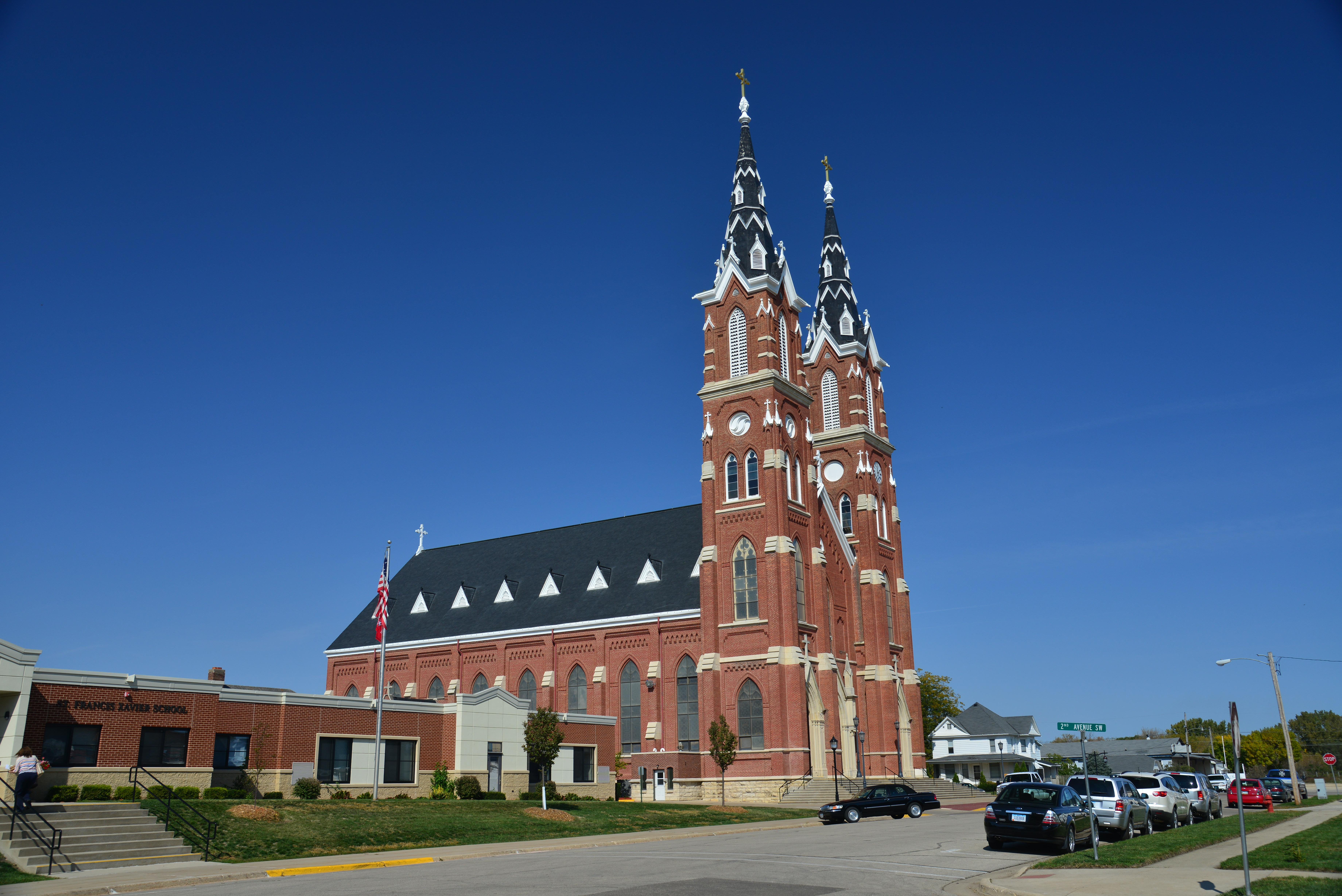 Famous church